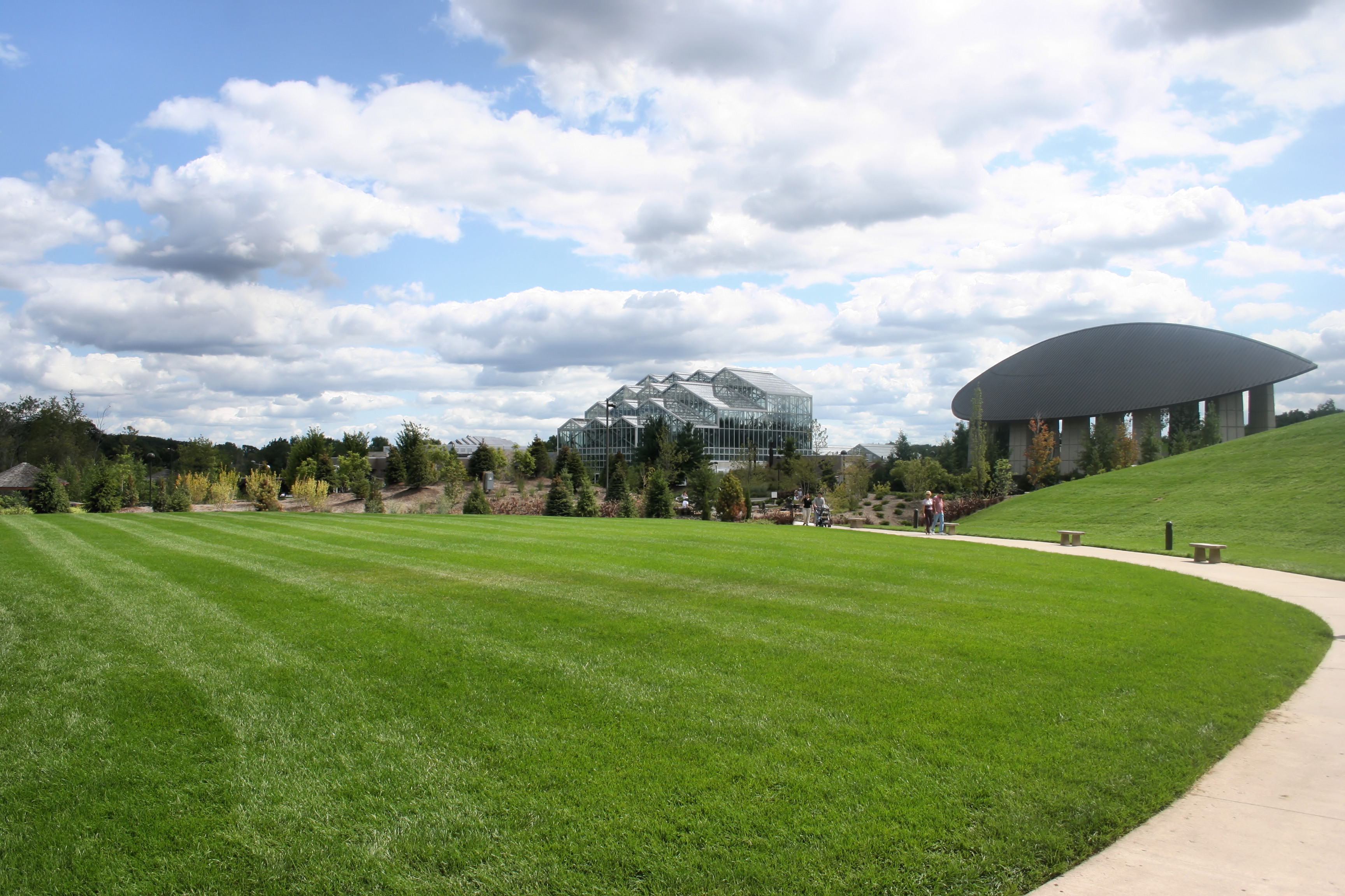 The conservatory and surrounding landscape at Frederick Meijer Gardens in Grand Rapids Michigan.